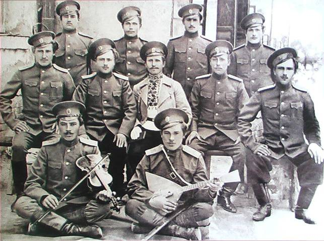 Nagaybak Cossacks from the village of Parizh, Ural, Russia, beginning of XX century.